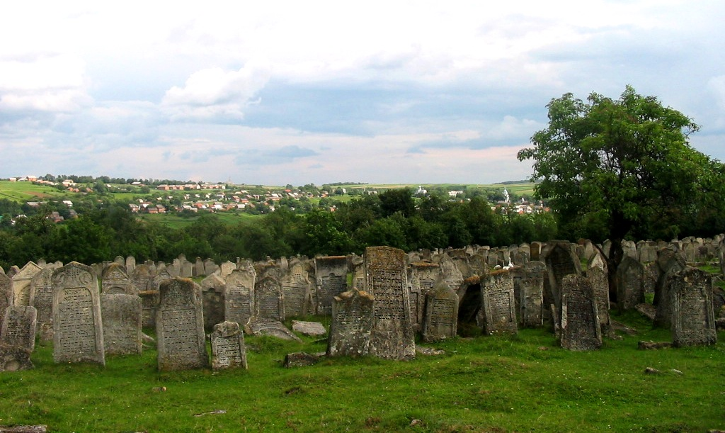 Jewish cemetery in Pidhaytsi (Podgaytsy, Podhajce - Підгайці - Подгайці), Ternopil province, western Ukraine.